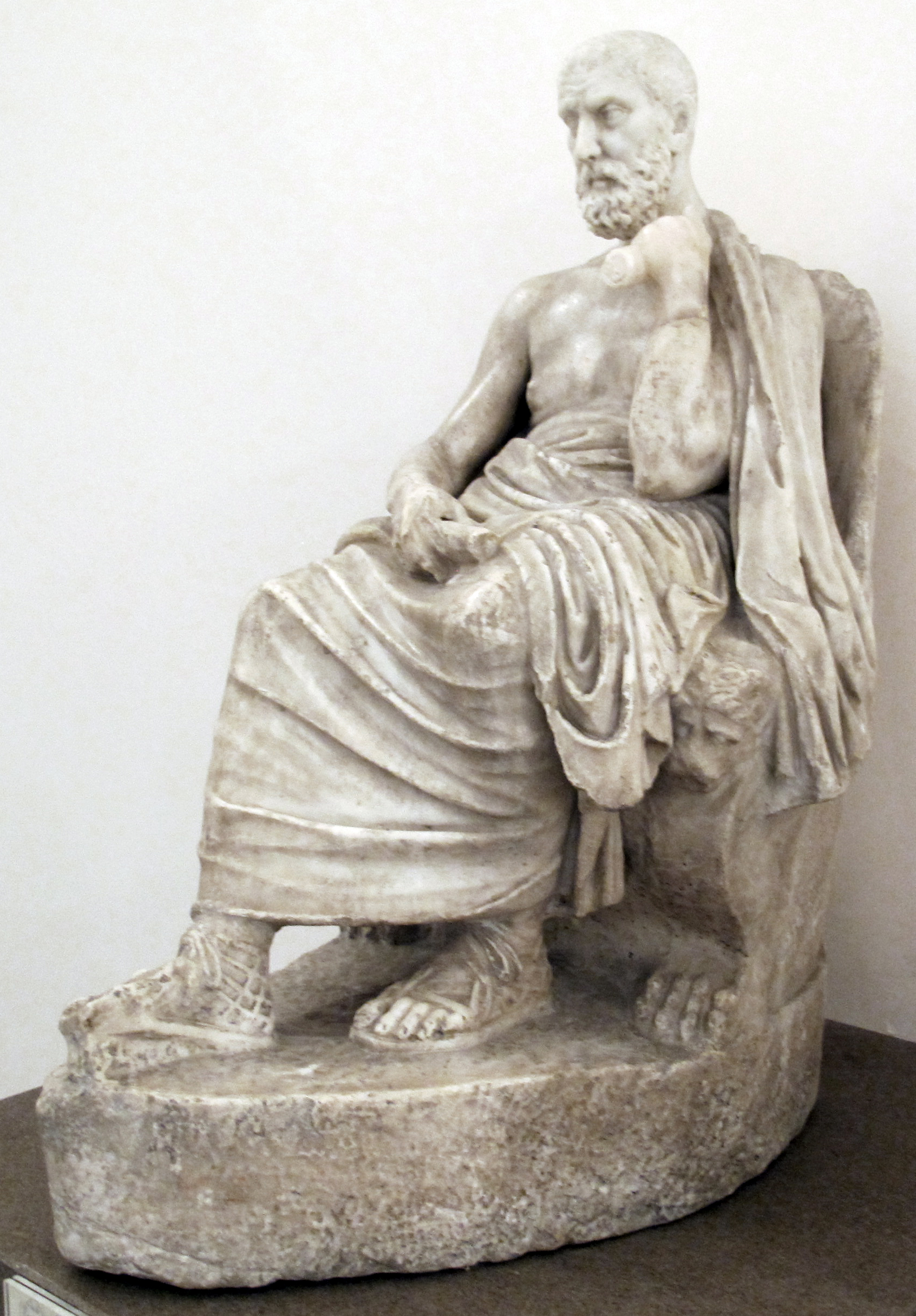 Ancient Roman statues from the Farnese Collection, now in Naples